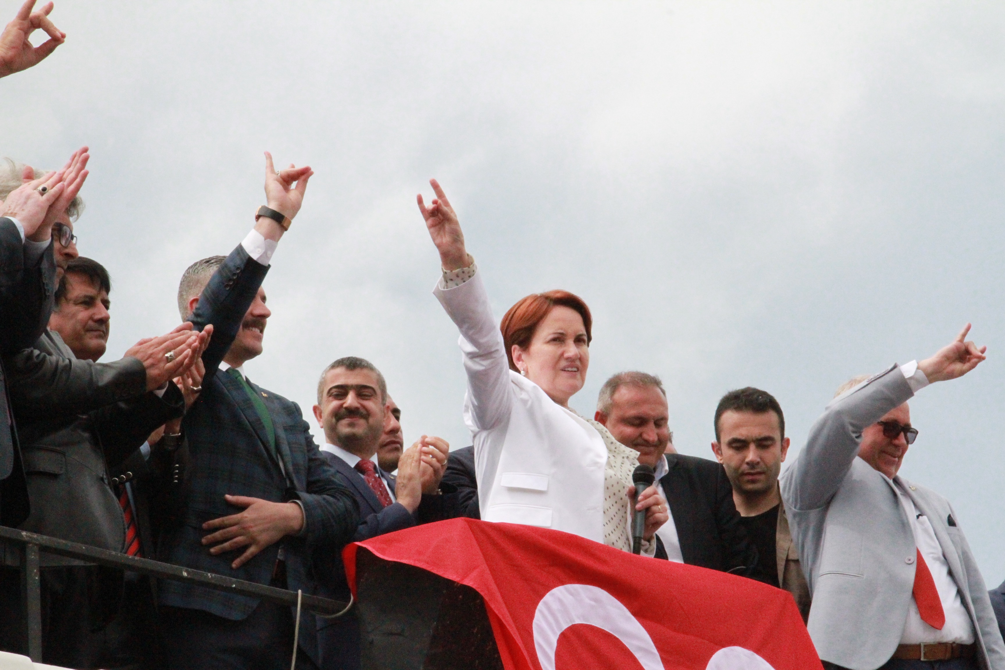 Meral Akşener and other dissidents from Nationalist Movement Party (MHP) delivering a speech after their banned extraordinary congress in Ankara.